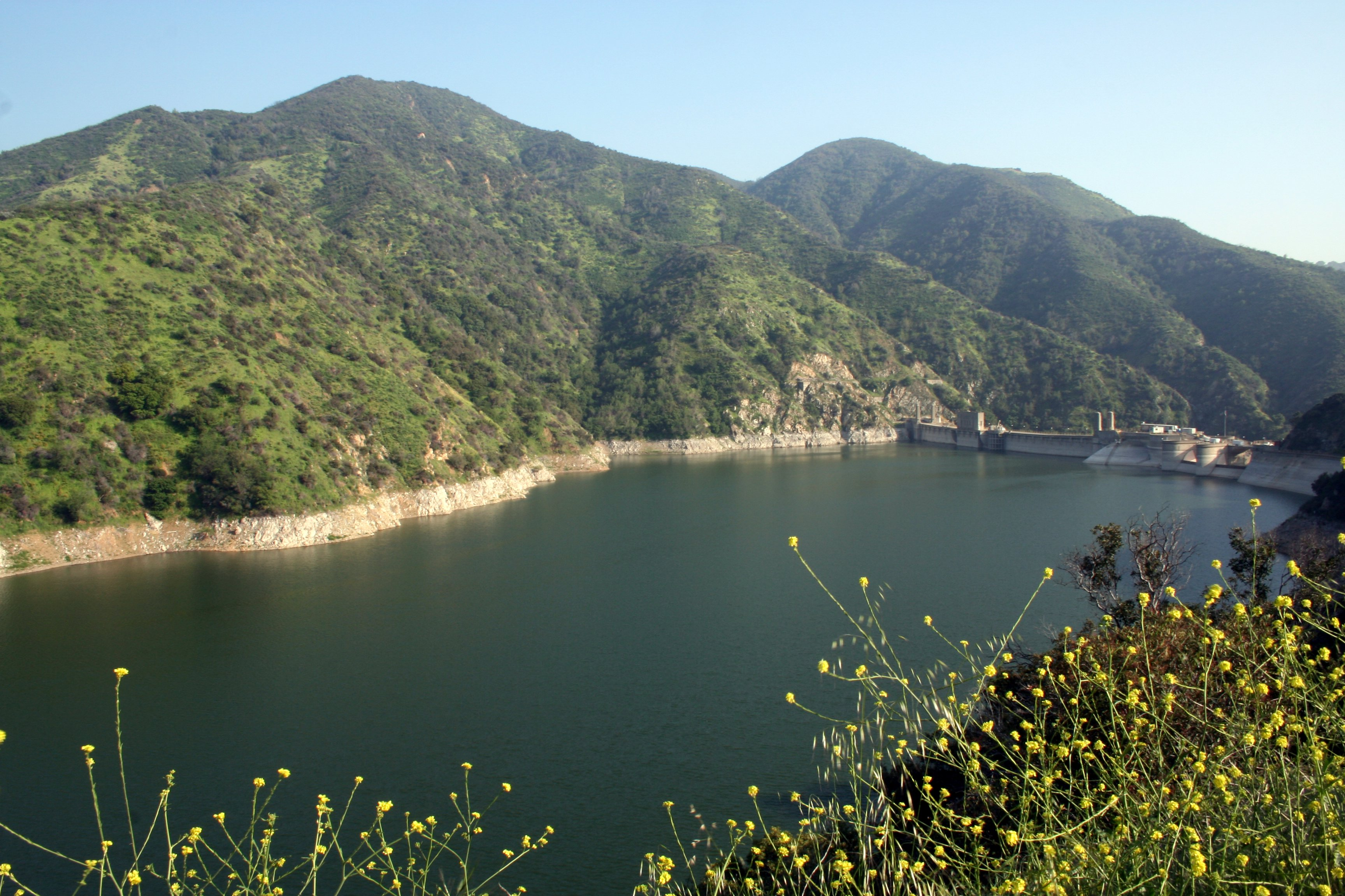 Morris Reservoir formed by Morris Dam on the San Gabriel river in San Gabriel Canyon